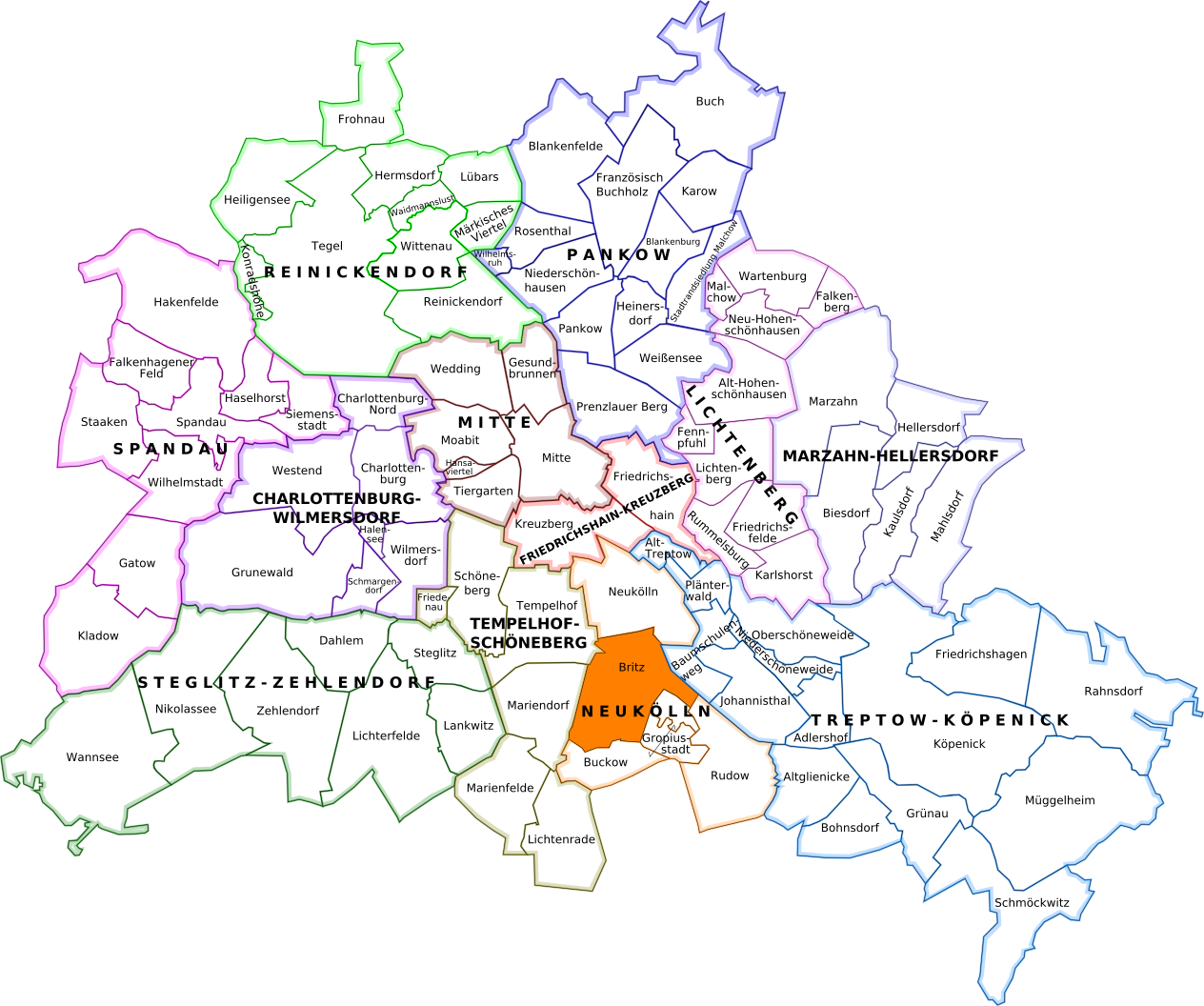 A map of the location of Britz in Berlin